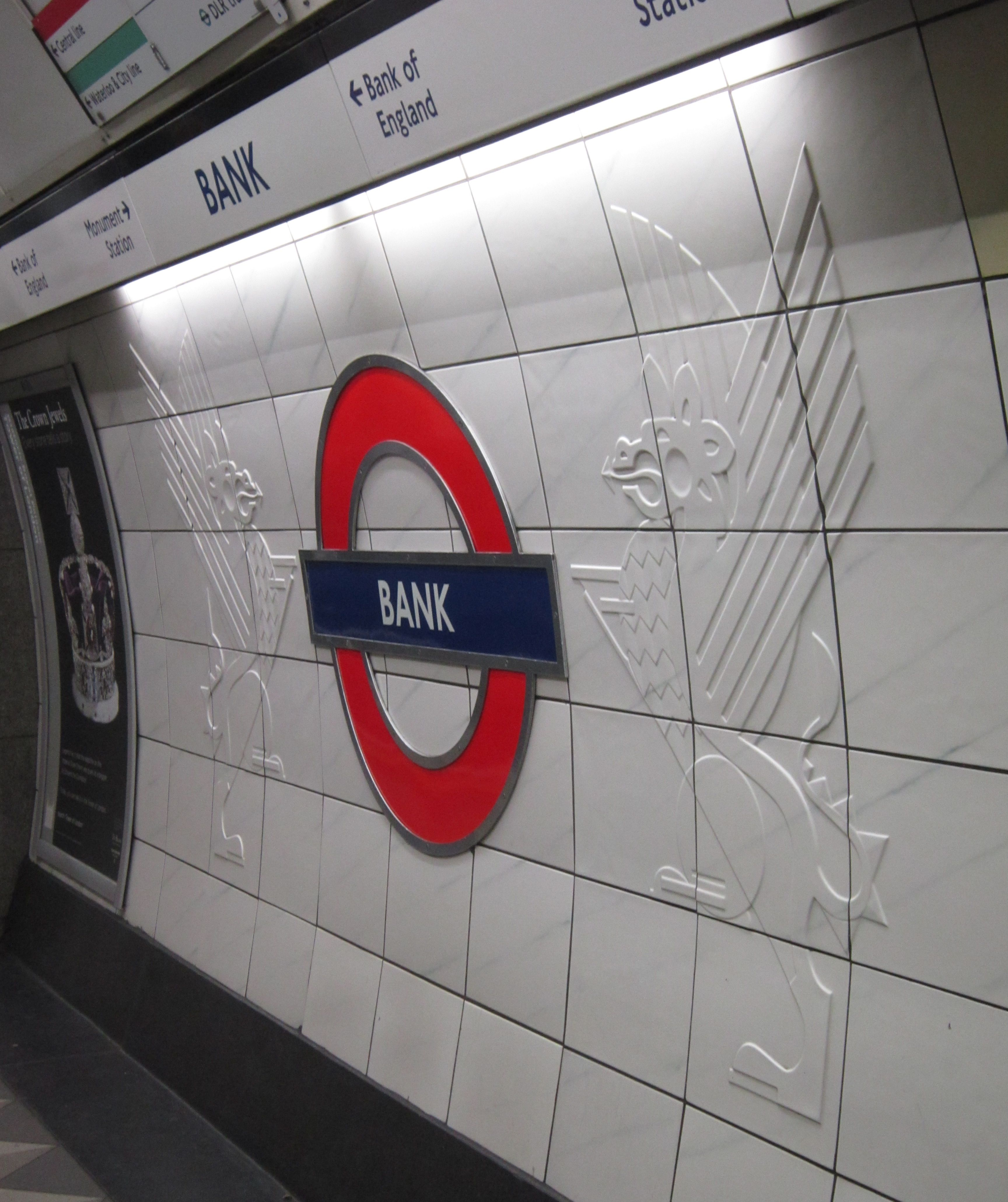 Wall tiles at Bank station showing the supporters of City of London coat of arms, combined with London Underground Roundel